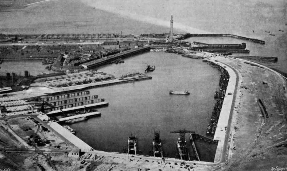 Image of Grimsby No.3 fish dock shorty after or nearing opening From: The New Fish Dock, Grimsby (No.I) (7 December 1934).